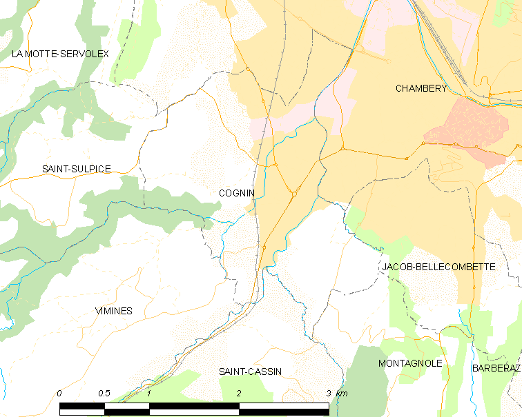 Map of French municipality